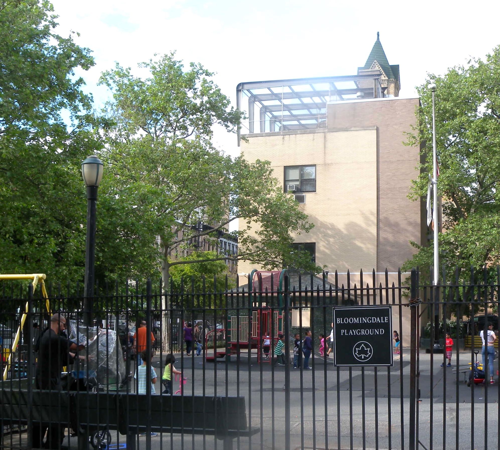 Looking north across 104th St at Bloomingdale Playground on a mostly sunny afternoon.